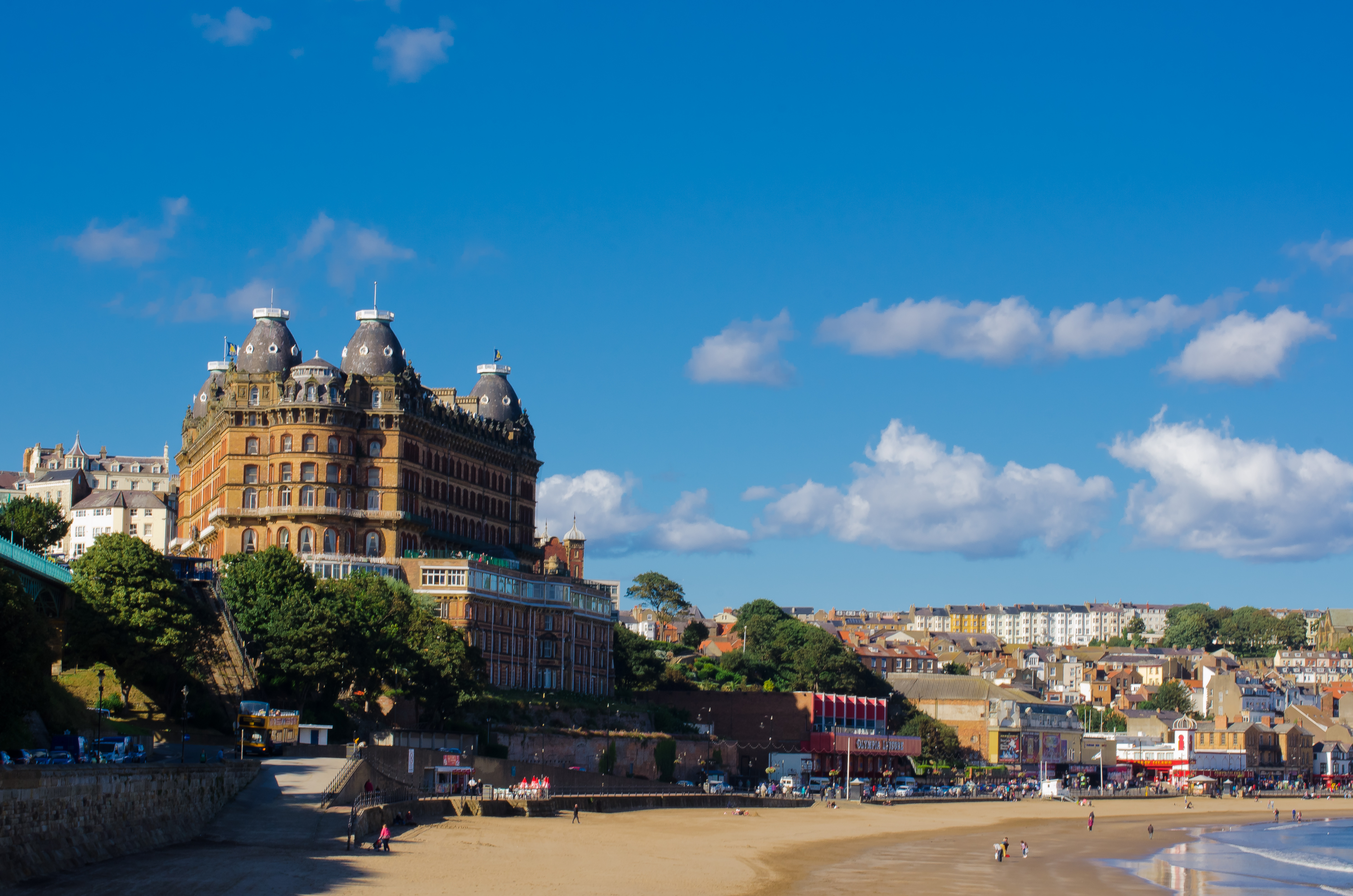 The Grand Hotel, Scarborough, North Yorkshire, England. Copyright Tom Tolkien